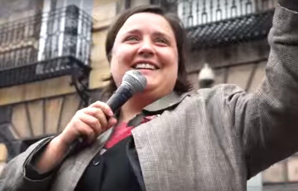 Susan Calman talking at the free LGBT rights comedy gig in Edinburgh. Alongside Edinburgh's Fringe Festival, Equality Network joined award-winning comedian Mark Thomas outside the Russian Consulate in Edinburgh for a special, one-off comedy gig to protest LGBT human rights abuses in Russia